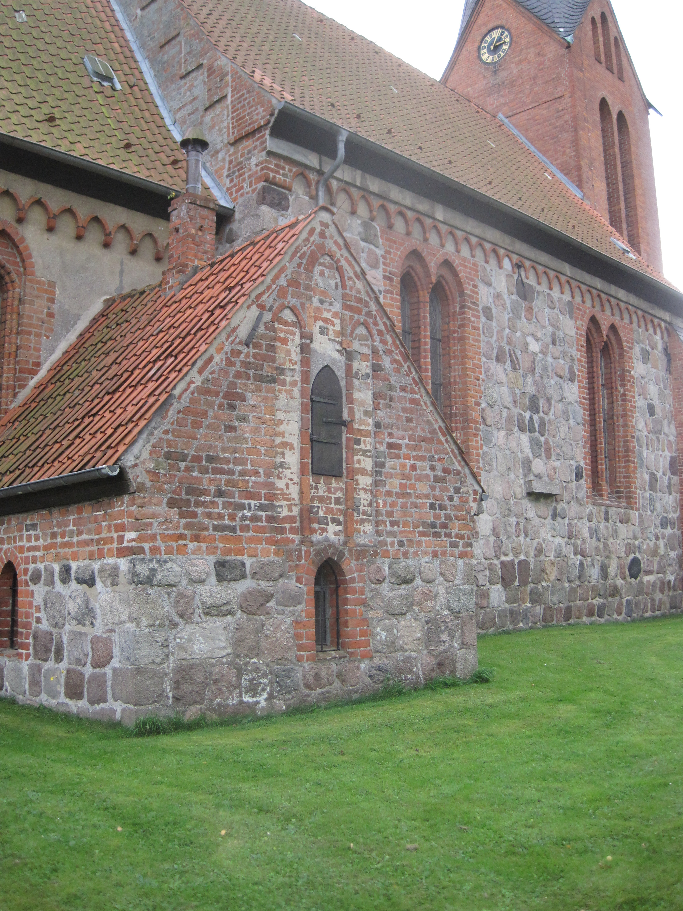 Church in Behlendorf